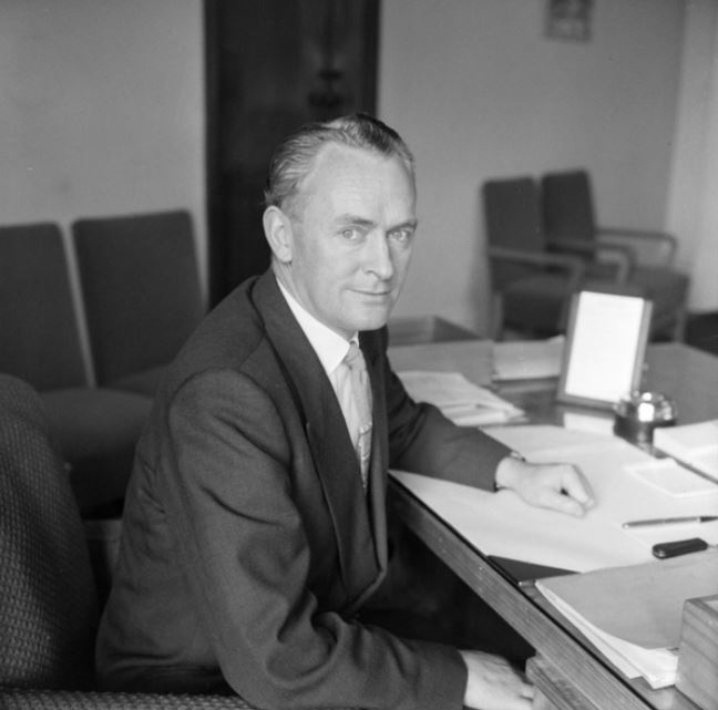 The Minister of Industries and Commerce Phil Holloway seated in his office.